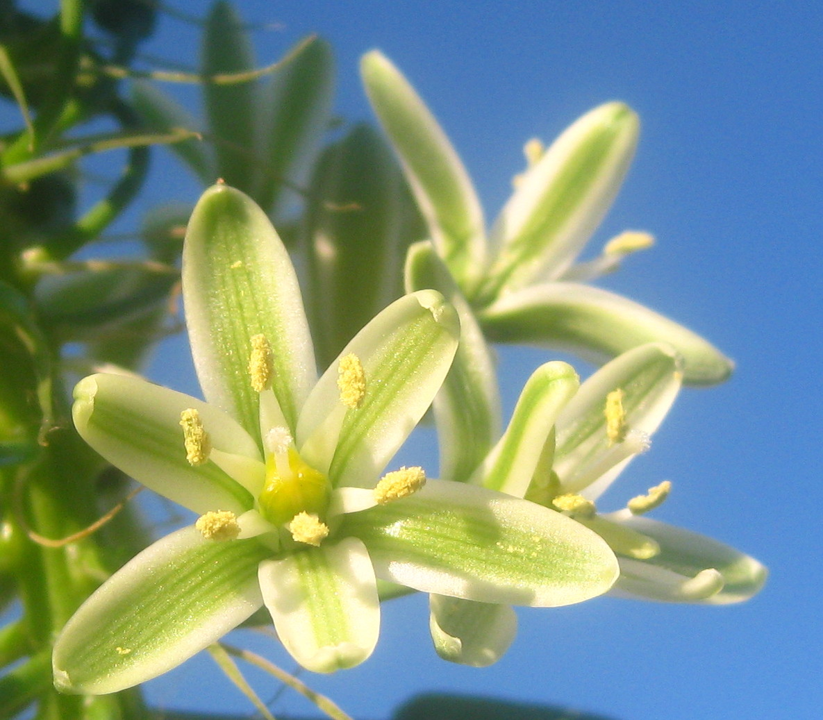 The raw leaves of this Albuca species are chewed by men in Central Mozambique as an aphrodisiac.